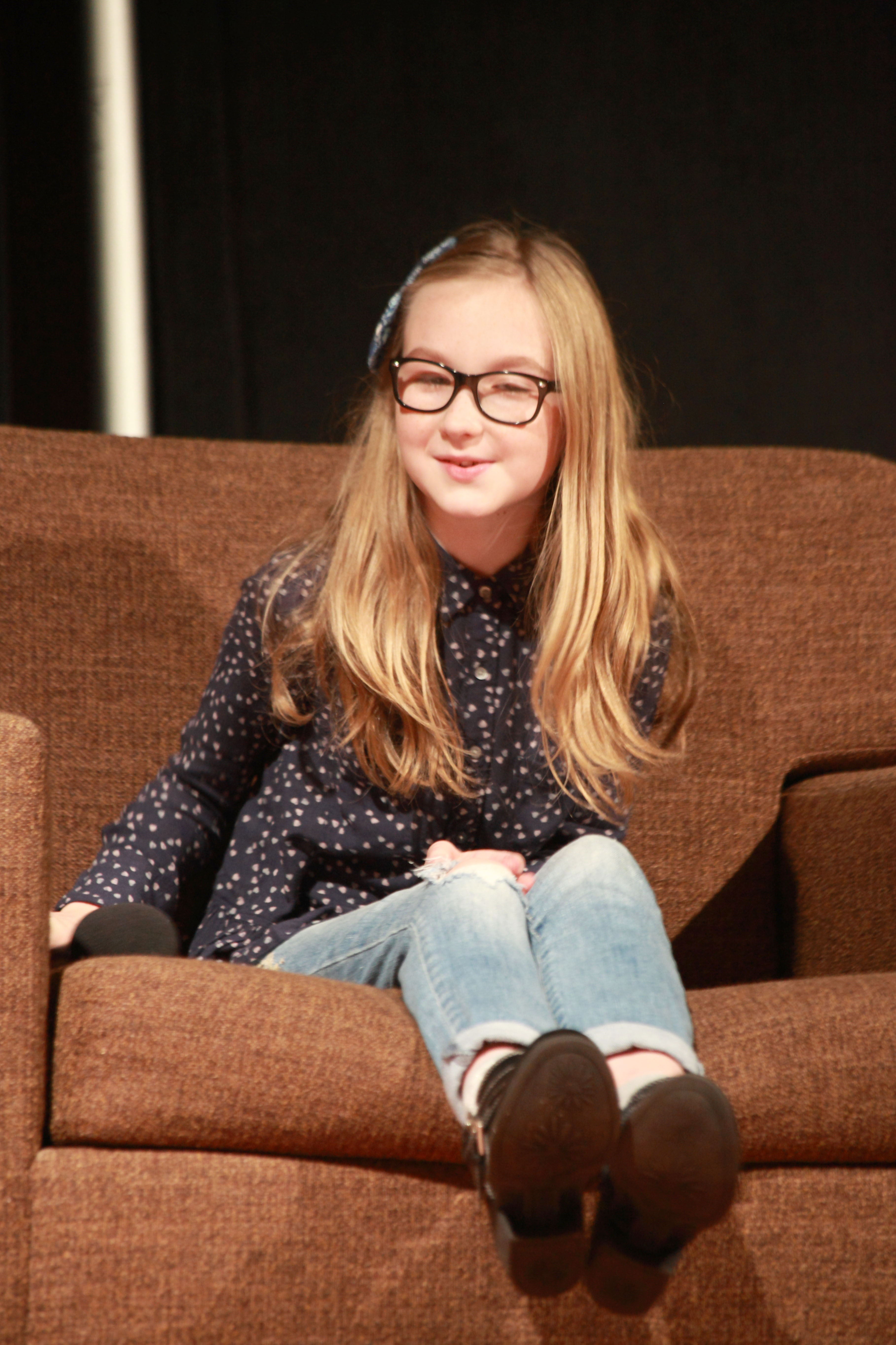 Meyrick Murphy ("Megan") from "The Walking Dead" at Spooky Empire's Ultimate Horror Weekend 2014 held in Orlando, Florida.